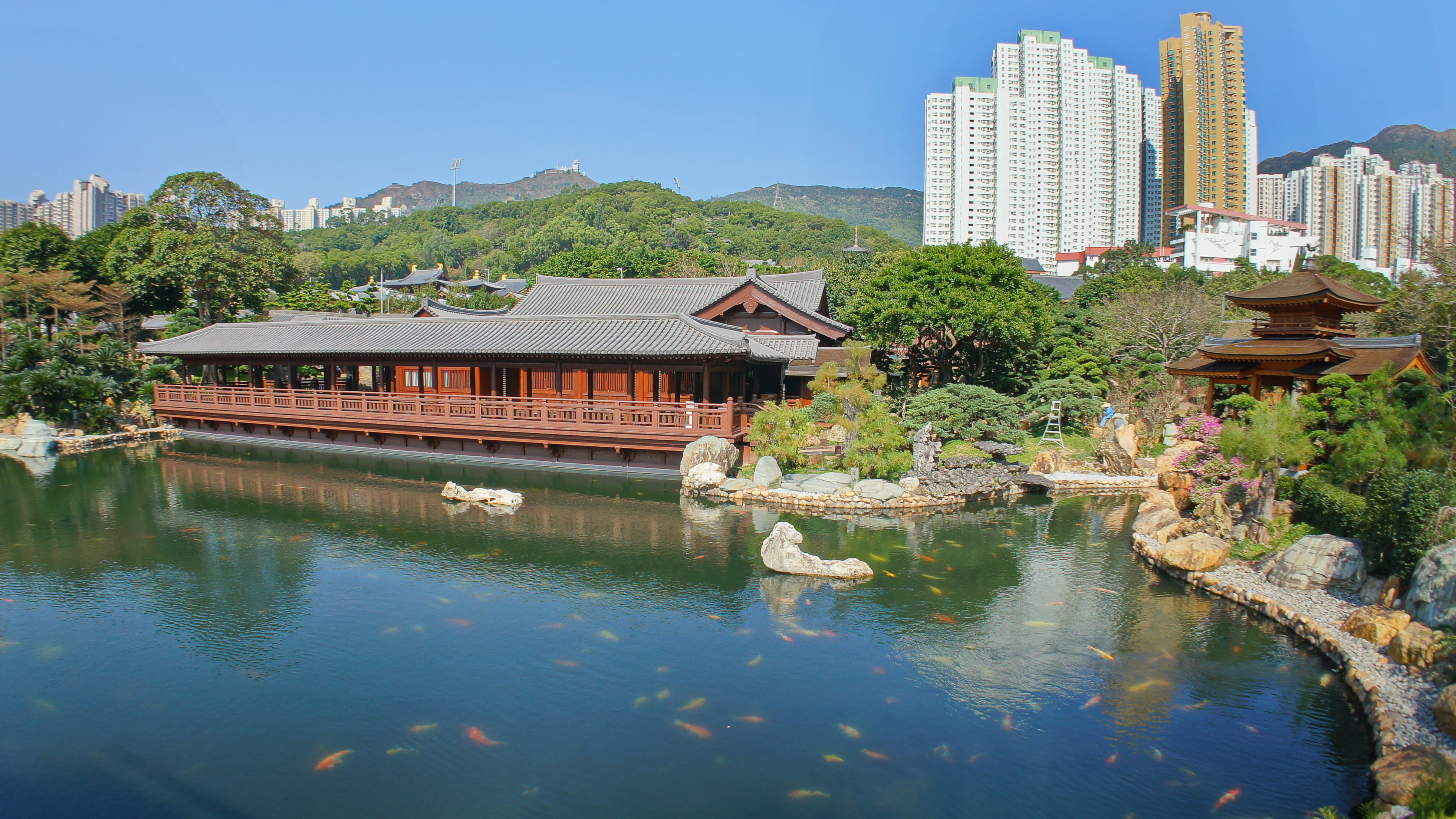 Blue Pond, Nan Lian Garden, Kowloon, Hong Kong.